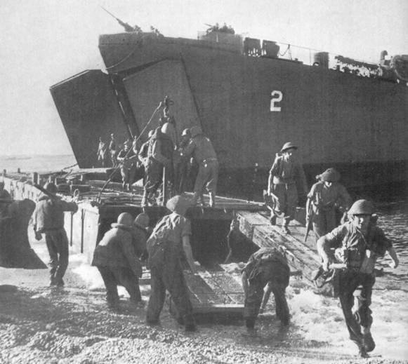 HM LST-2 disembarking US Navy "Seebees" and British troops at Salerno, 9 September 1943.